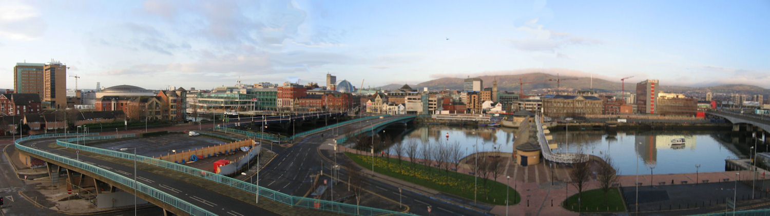 Belfast 2008